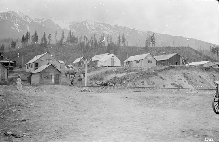 Terms of use Credit: Canada. Dept. of Mines and Technical Surveys / Library and Archives Canada / PA-020489 Restrictions on use: Nil Copyright: Expired